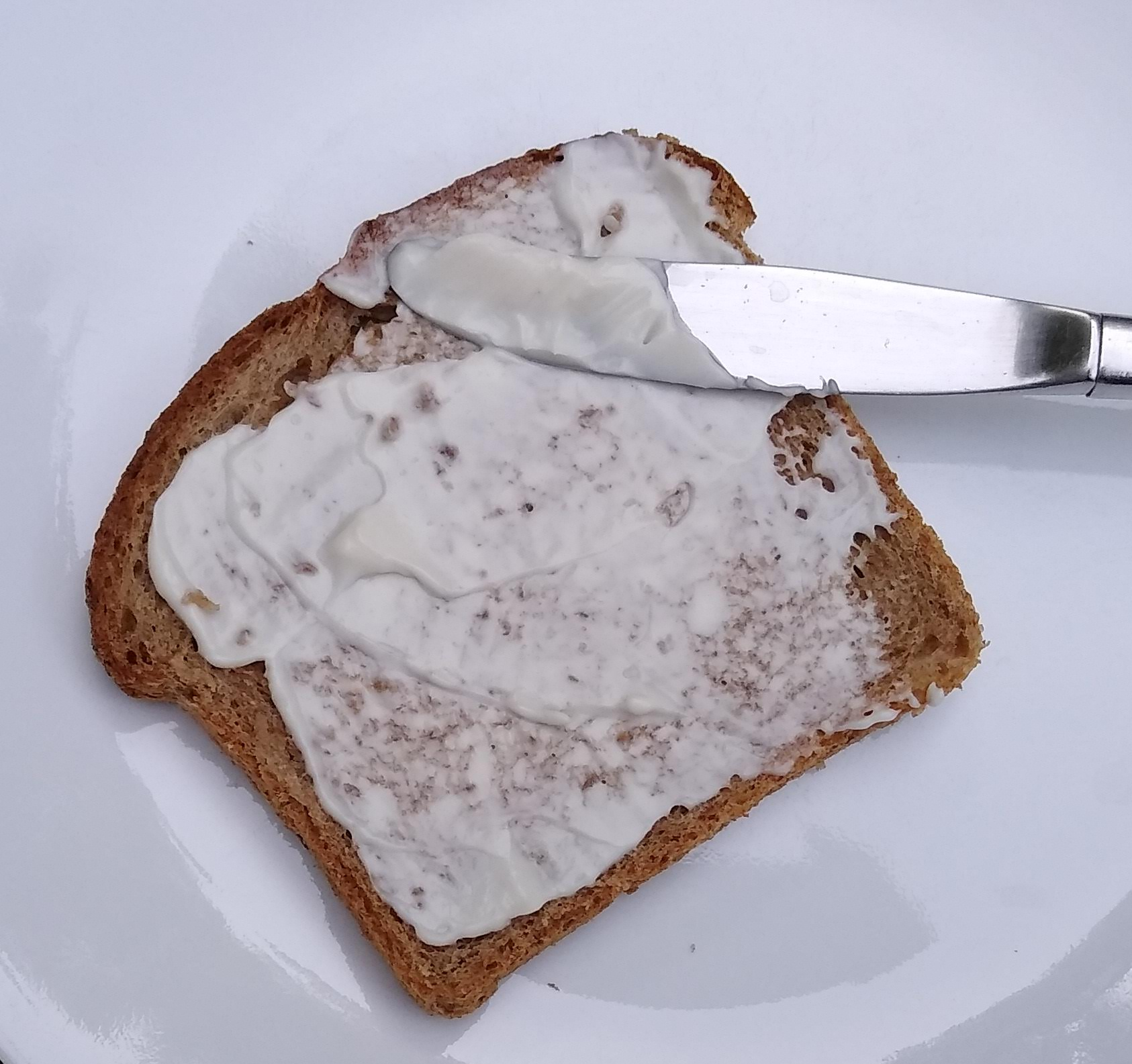 Follow Your Heart brand "vegenaise" spread on a slice of toasted whole wheat bread.